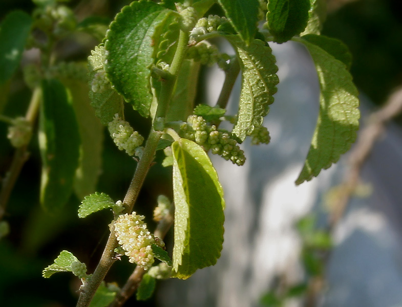 Acalypha fruticosa- chinee mara, perim-munja, siru sinni, cinni, kittik-kilanku, cinnaku- in Herbal Garden, in Rangareddy district of Andhra Pradesh, India.